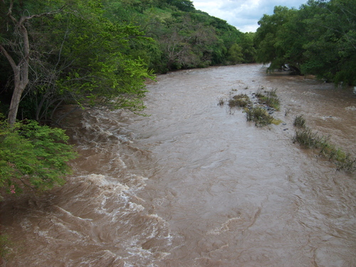 in rio ameca cotamined in coming do ameca